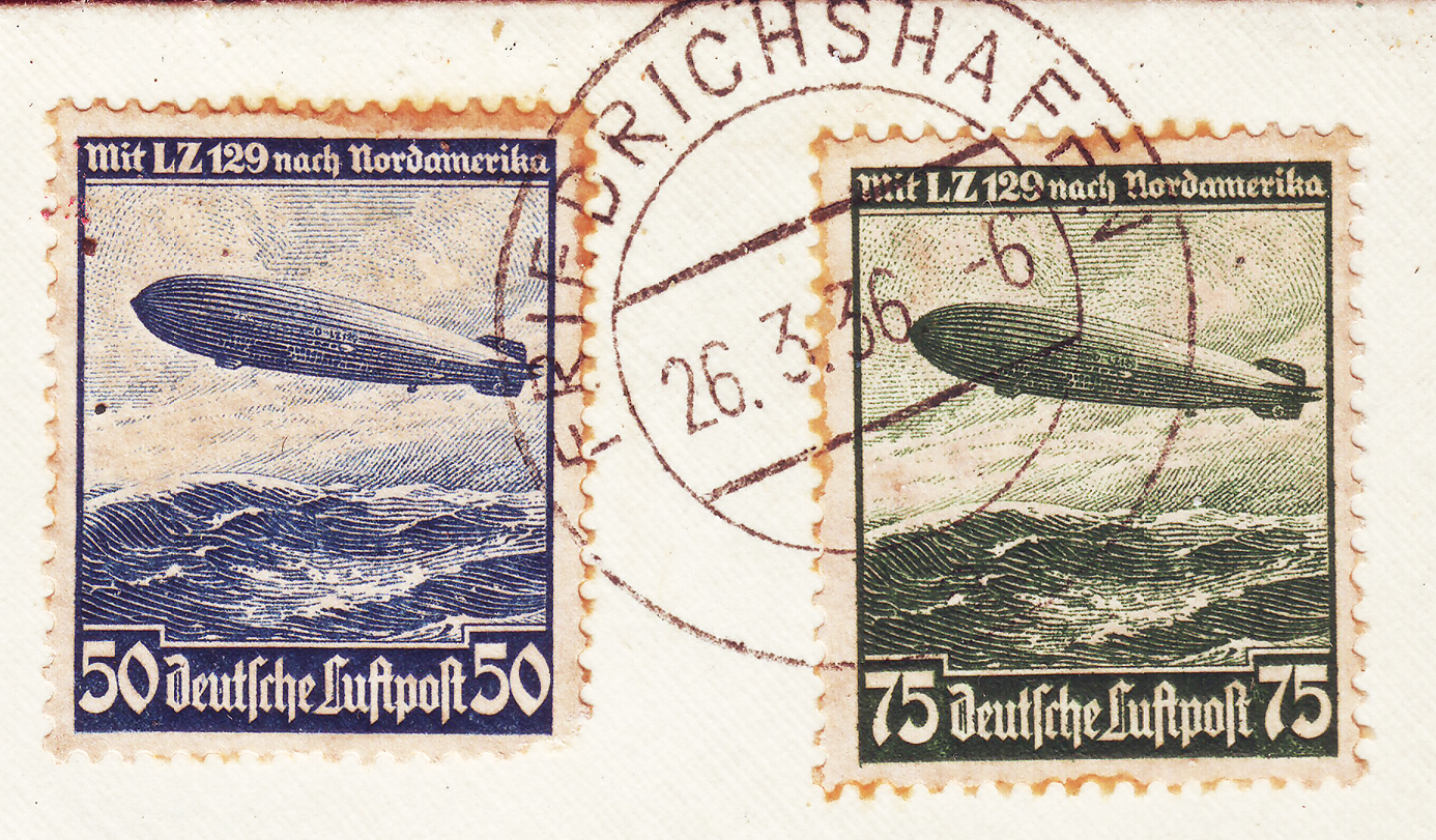 1936 German Air Mail ("Deutsche Luftpost") stamps C57 (50pf) and C58 (75pf) issued for franking mails to be carried on the airship "Hindenburg" (D-LZ129) from Germany to North America ("Mit LZ129 nach Nordamerika") postmarked (CDS) at Friedchshafen on March 26, 1936, for a cover carried on Rheinland Referendum Flight ("Die Deutschlandfahrt"), March 26-29, 1936. (Source: The Cooper Collection of Zeppelin Postal History)